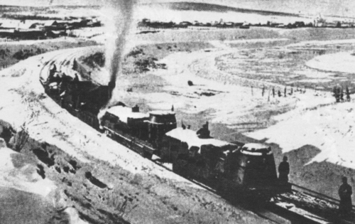 Armored train Czechoslovak legions Orlík in the Siberian road